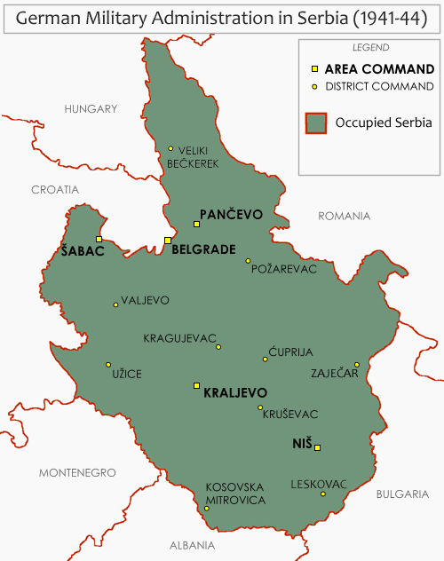 Structure of the German Military Administration in occupied Serbia (1941-1944).